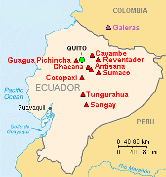 Map showing major volcanoes of in Ecuador